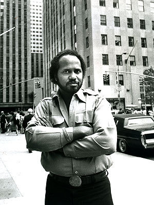 St Clair Bourne in about 1987 on the way to a meeting at PBS.